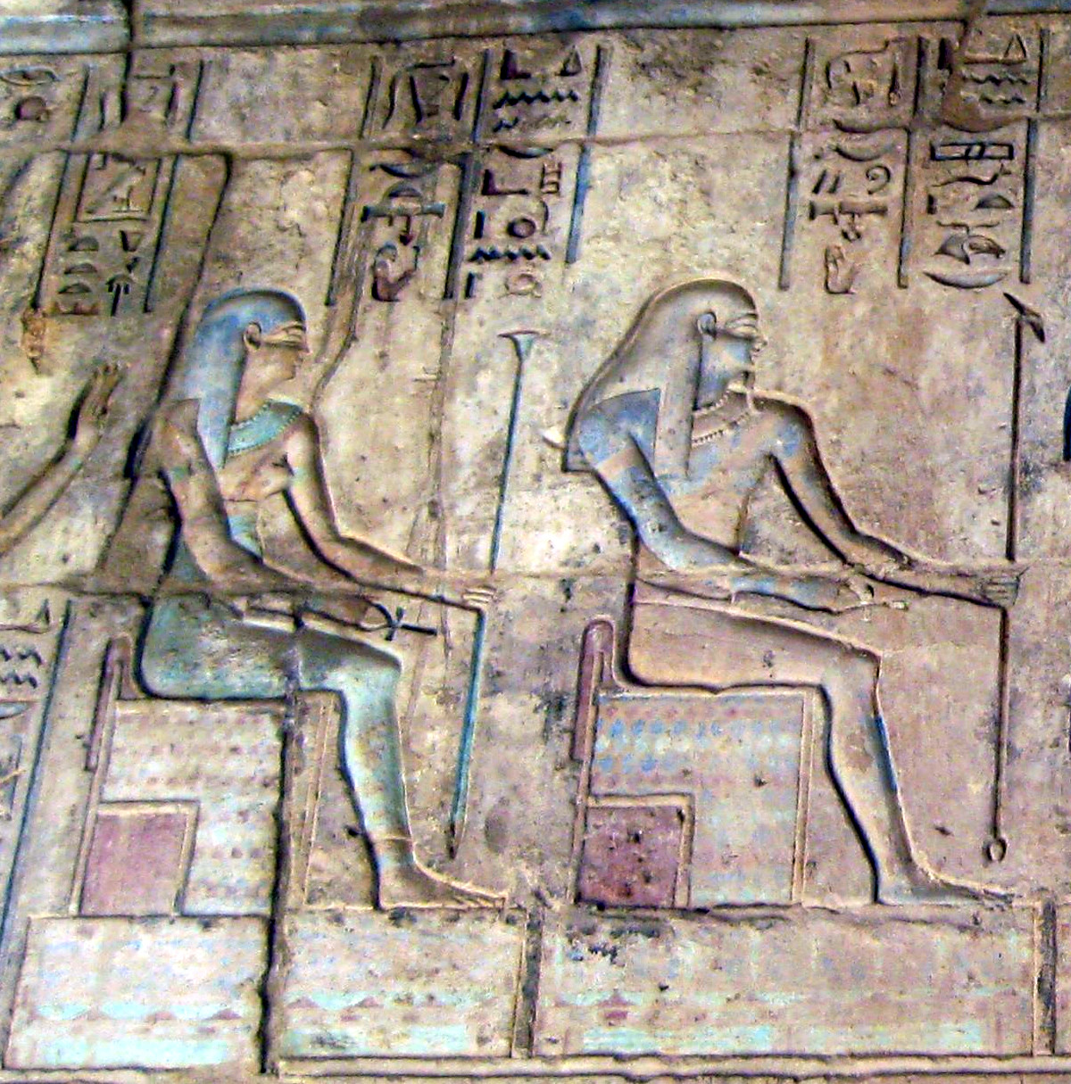 Kuk and Kuket. Deir el Medina (The Place of Truth)